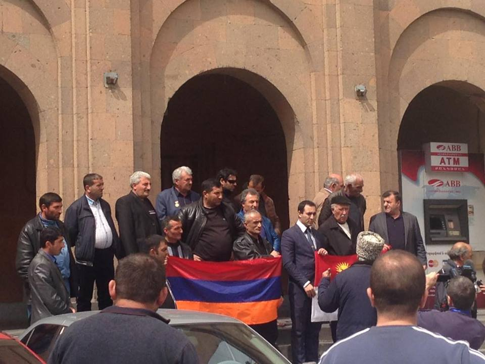 Armenian Yazidi protestors against the Azeri military actions.